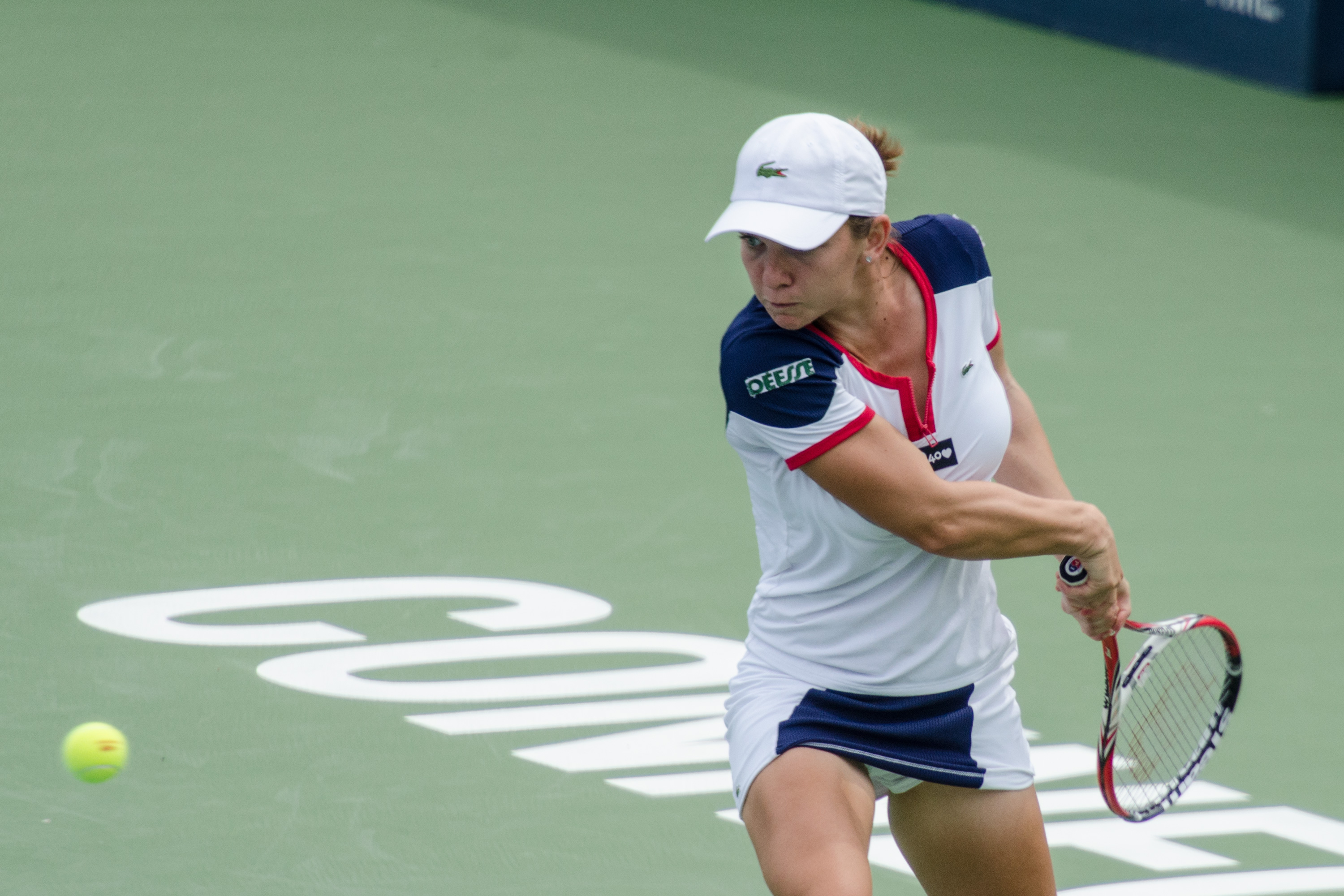 Simona Halep returns a shot in her first round match versus Daniela Hantuchova at the 2013 New Haven Open at Yale.